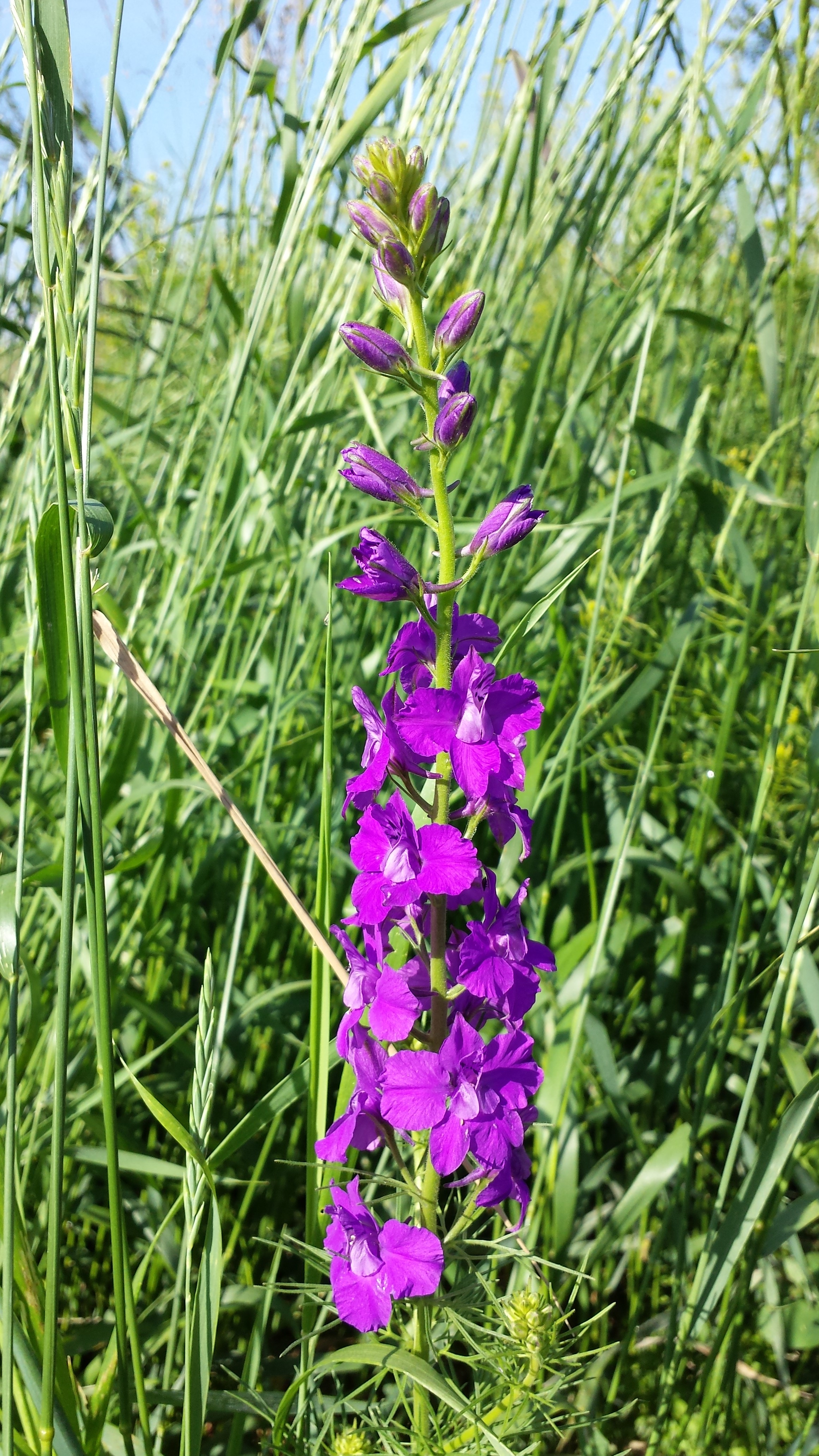 Florescence Taxon: Consolida hispanica (sensu Fischer et al. EfÖLS 2008 ISBN 978-3-85474-187-9) Location: Alte Schanzen, object X, Floridsdorf, Vienna - ca. 225 m a.s.l. Habitat: dry grassland